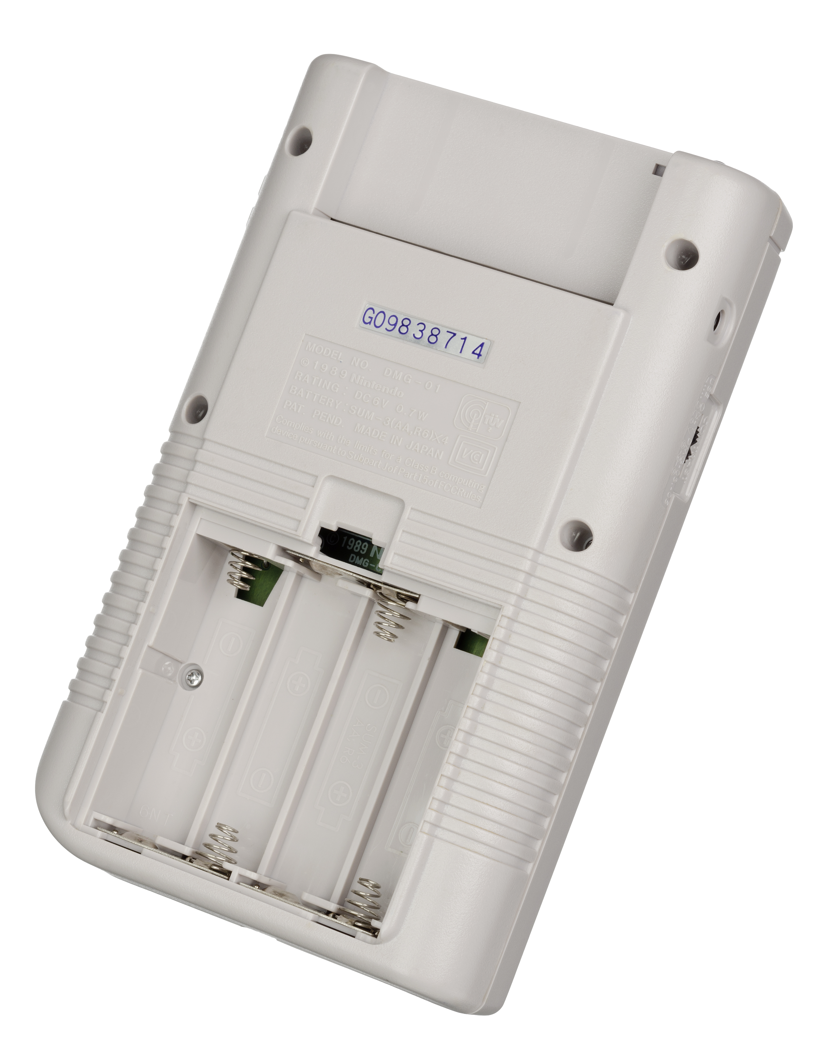 The Nintendo Game Boy, a handheld gaming console released in 1989. The relatively simple and monochrome Game Boy faced off against multiple handhelds and dominated the portable gaming market for almost a decade. This system has a 4.19 MHz CPU, a 4-shade LCD and ran off of 4 AA batteries. It was a very long-running system, only seeing a minor upgrade with the Game Boy Pocket in 1996, then later the Game Boy Color in 1998.